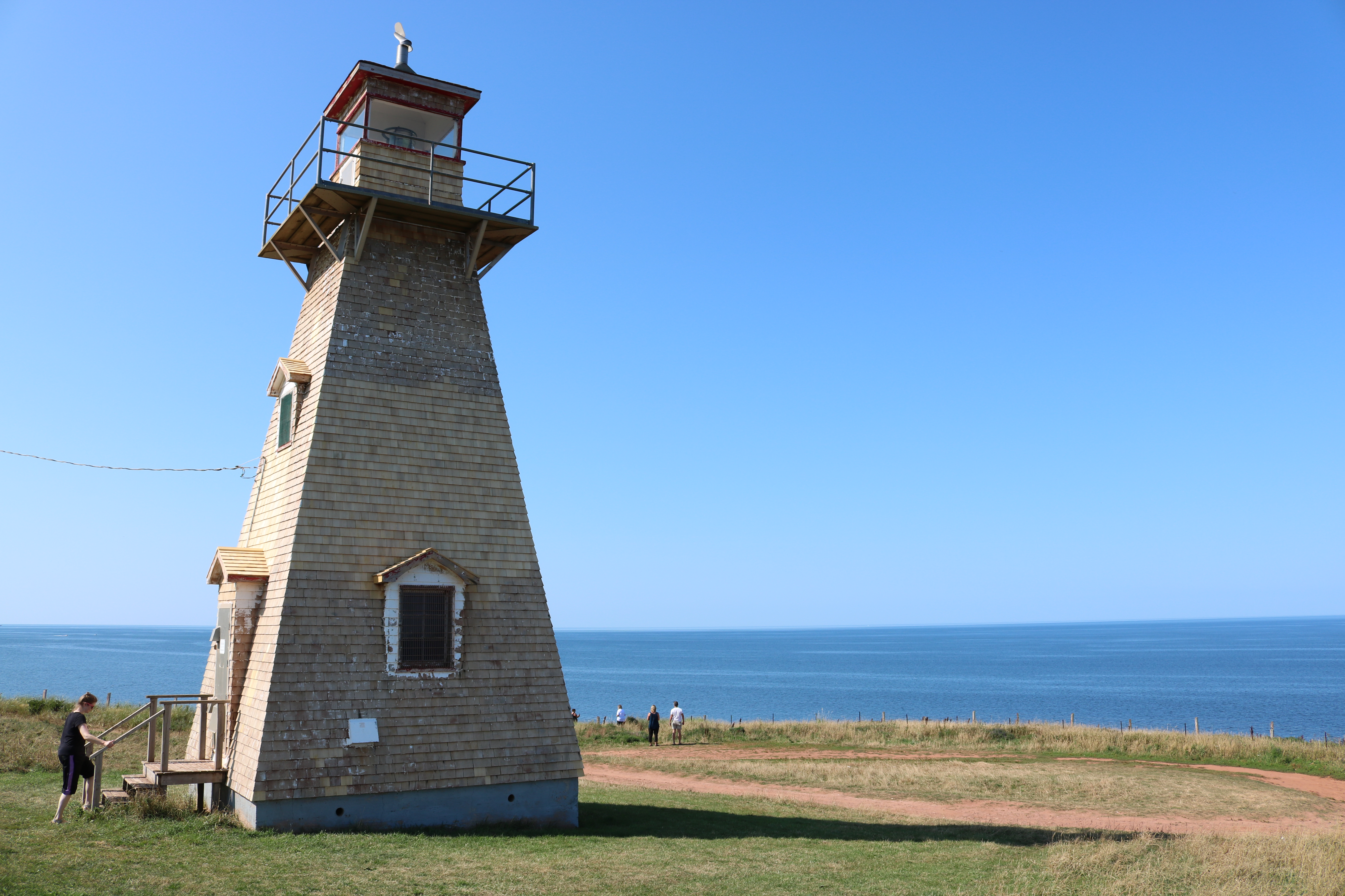 Cape Tryon Lighthouse on Prince Edward Island